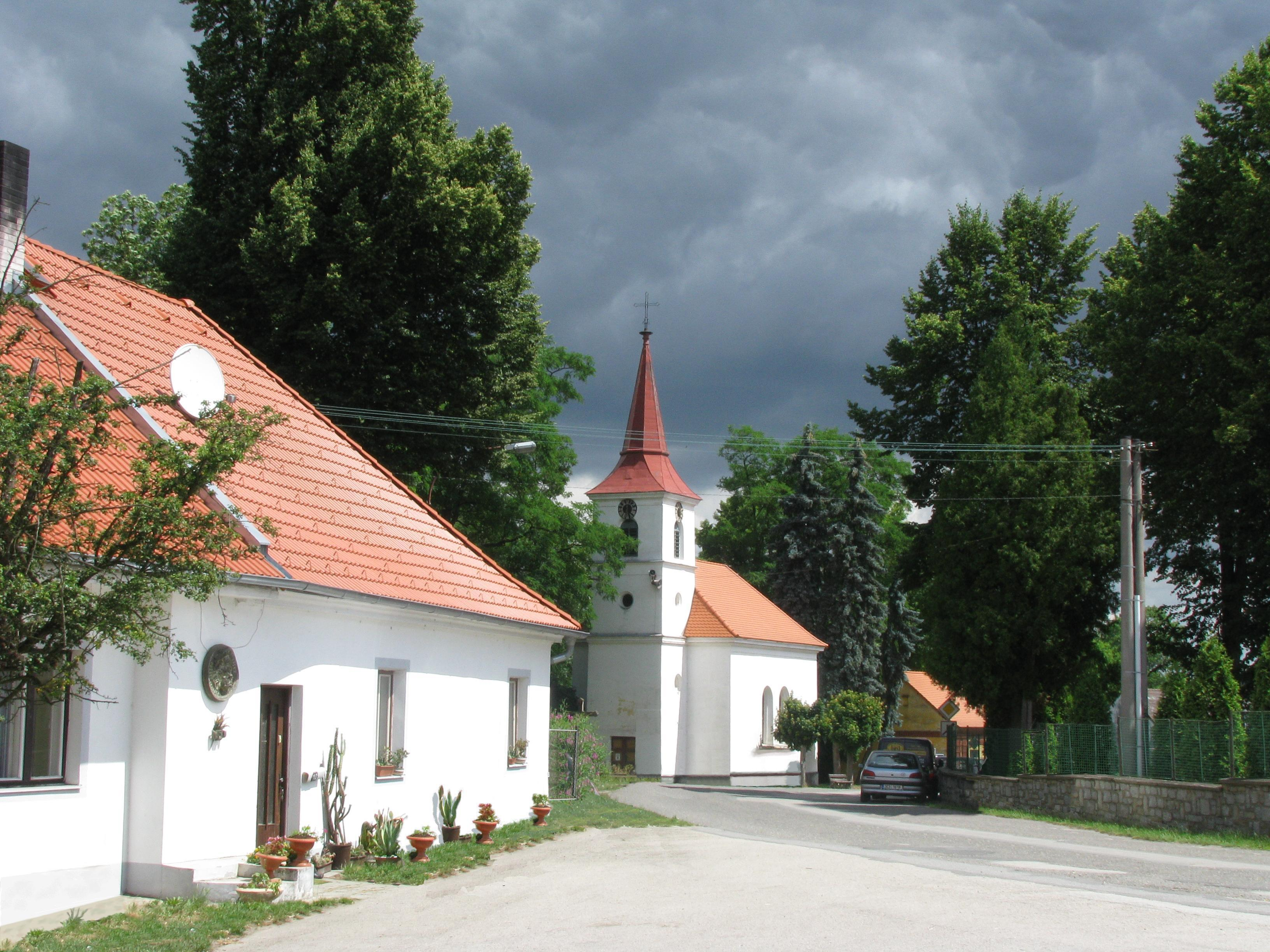 Village Lasenice